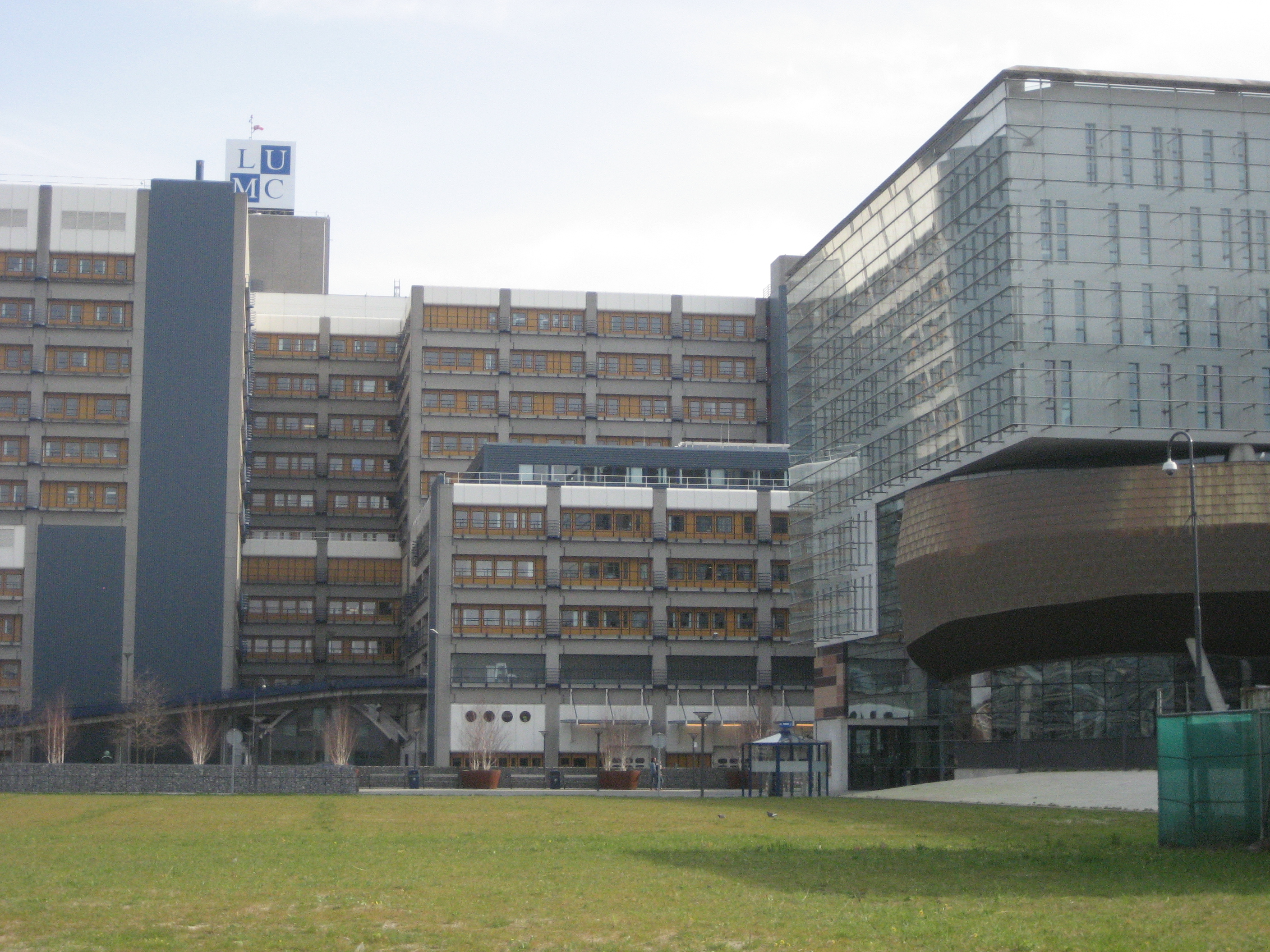 LUCM building (Leiden hospital) & Education Building Medical Faculty Leiden University (The Netherlands)